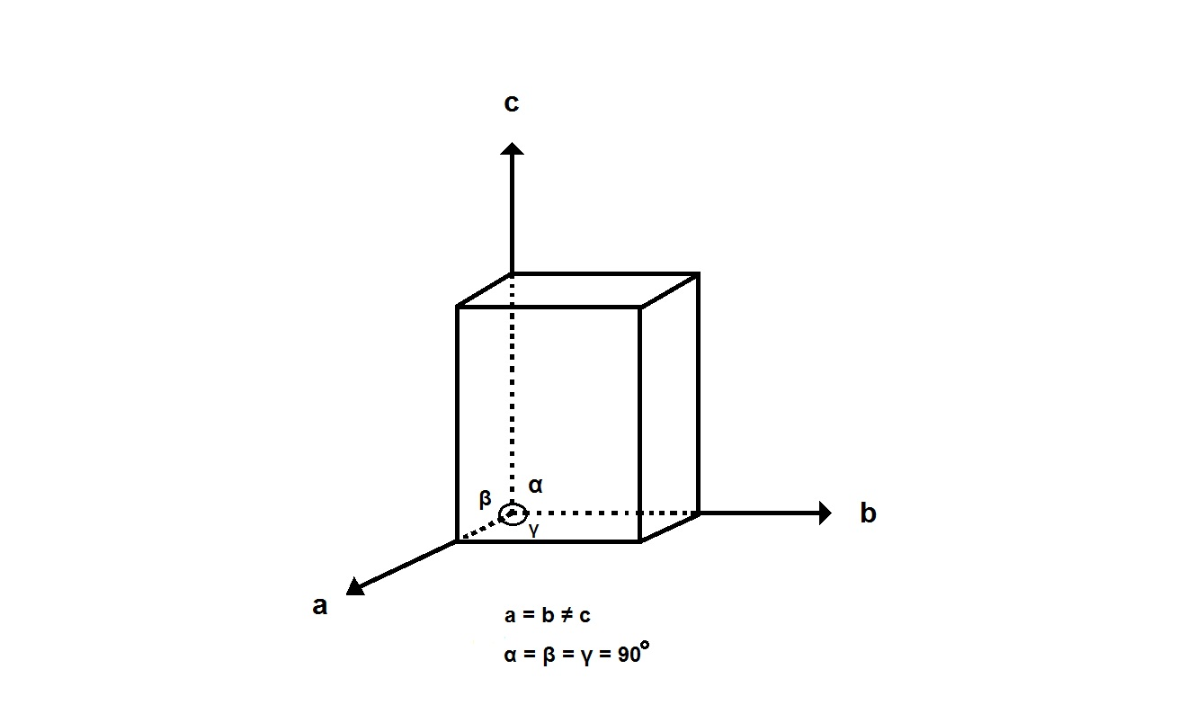 TetragonalYapi